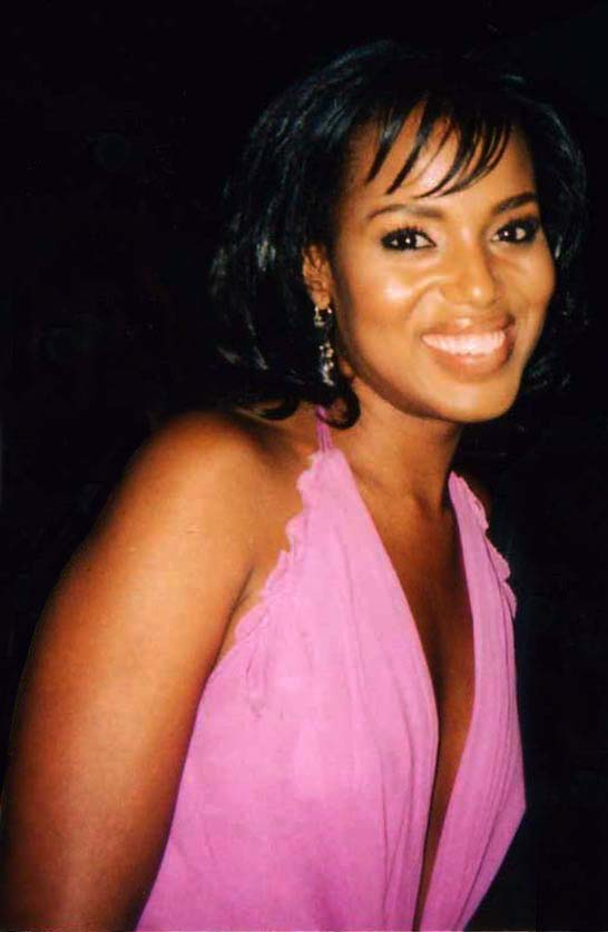 Actress Kerry Washington at the June 24, 2004 premiere of the Spike Lee film She Hate Me at the Loews Astor Theater in Times Square, Manhattan. This photo was created by Luigi Novi. It is not in the public domain, and use of this file outside of the licensing terms is a copyright violation.